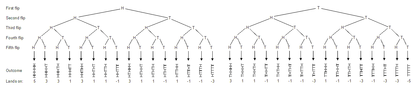 Five flips of a fair coin.